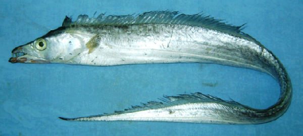 Trichiurus lepturus collected in Pakistan